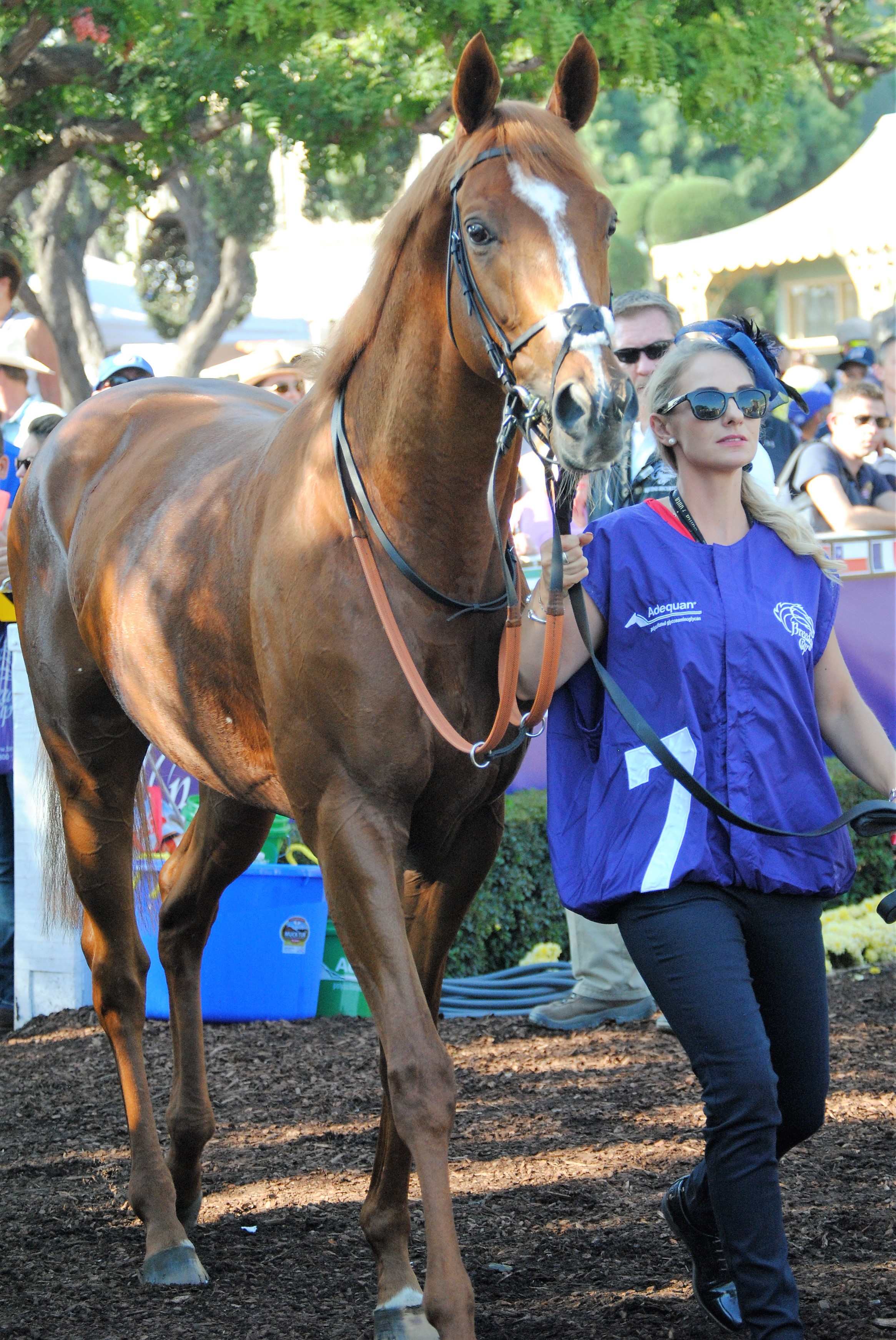 Breeders' Cup Turf 2016 - Ulysses being led into the saddling enclosure at Santa Anita Park